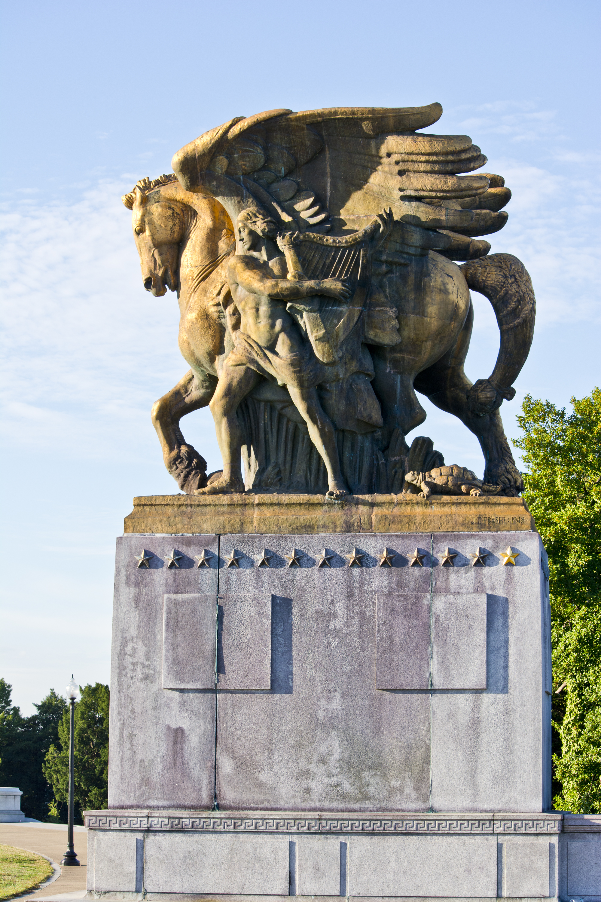 Looking southwest at the side of the statue "Music and Harvest", one of two statues that make up the work The Arts of Peace. The Arts of Peace are statues which adorn either side of the southern entrance of the Rock Creek and Potomac Parkway in Washington, D.C., in the United States. They were designed by sculptor James Earle Fraser, and erected in 1951. The mythological winged horse Pegasus is the centerpiece of the statue. On Pegasus' left is a naked young woman with a toga draped over her hips and holding a harp in her trailing arm, symbolic of music. Behind the woman is a turtle, symbolizing the belief that "art is long and time is fleeting".